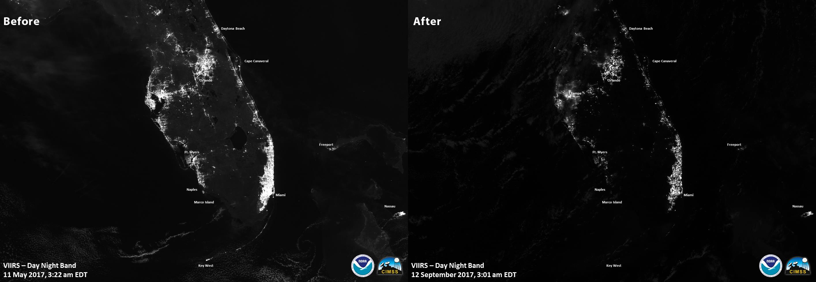 Night-time satellite images of Florida before (left; 11 May 2017) and after (right; 12 September 2017) Hurricane Irma, which made landfall near Naples, in the southwest corner of peninsular Florida, as a Category 4 hurricane and exited the state into Georgia (top of image) as a tropical storm. The hurricane left over 7 million customers—over 62% of the state's electric customers—without grid (mains) electrical power as of the evening of September 11, 2017. (Sources: Tampa Bay Times, Mashable) The right image was captured at 3:01AM EDT (7:01 UTC) on the morning of September 12. The left image was captured at 3:11AM EDT (7:11 UTC) on May 11, 2017. Both images were captured by the Visible Infrared Imaging Radiometer Suite (VIIRS) sensors on the Suomi NPP weather satellite. The composite before-and-after image was part of a tweet with the following text: "Want to know what power outages after #Irma looked like from #space? The VIIRS instrument on Suomi NPP #satellite captured these views:"